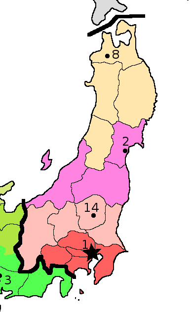 East Defence HQ in 1937. A star marks Tokyo, the location of HQ. Bold lines show the border of the East Air-defence Area. Colors and numbers are divisional regions.